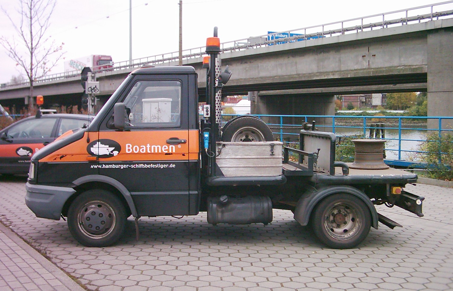 Mooring vehicle Iveco Daily Mk2 of Hamburg Boatmen Association.